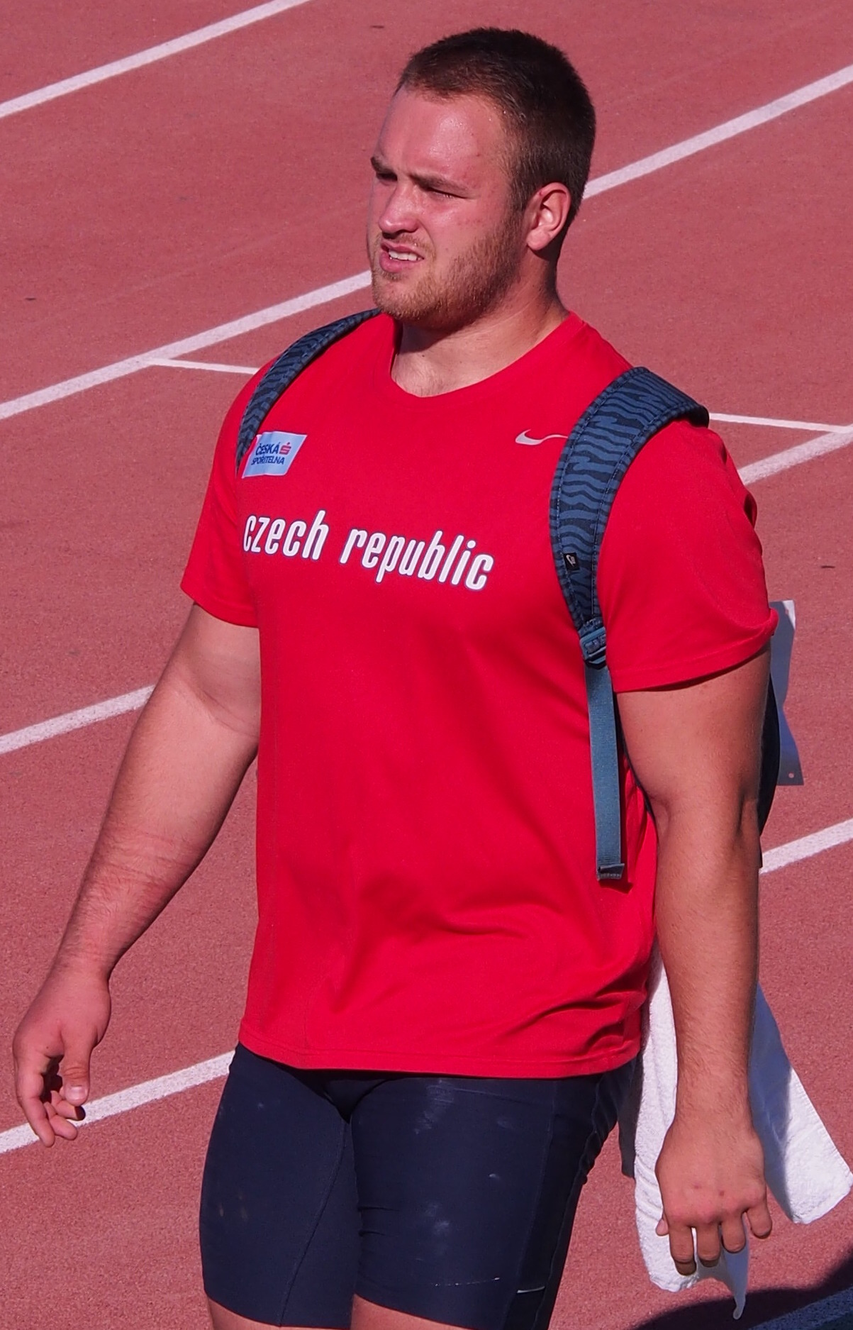 Tomáš Staněk after the end of the shot put event at 2015 European Team Championships First league.